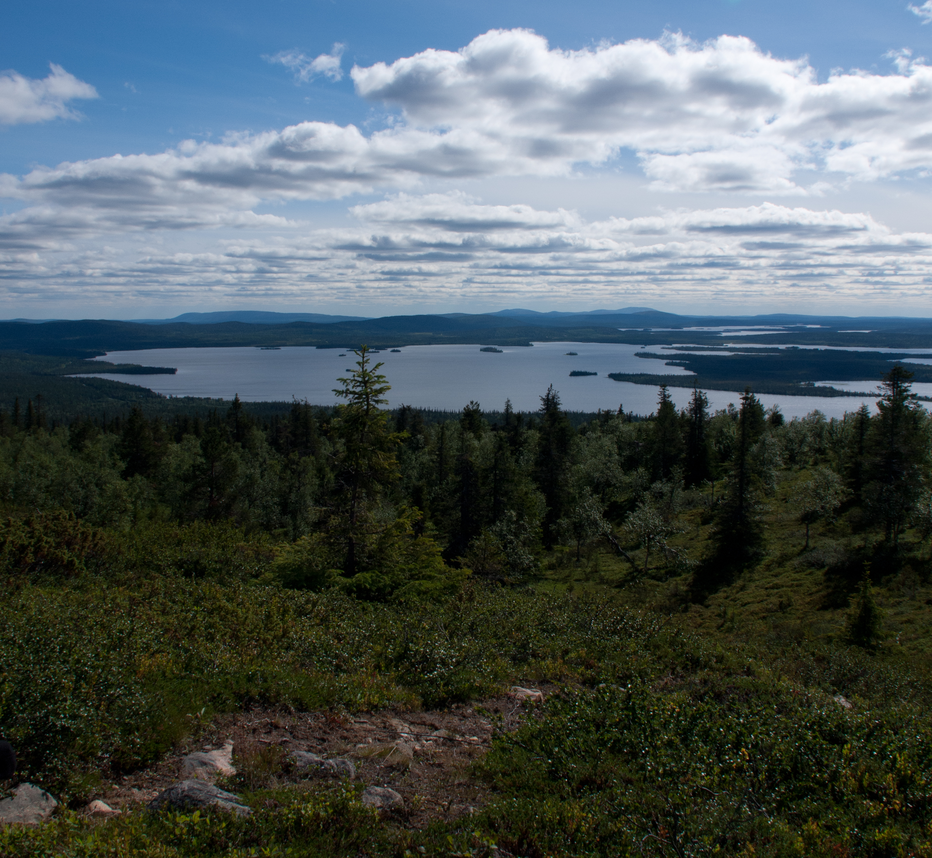 Lake Jerisjärvi seen from Keimiö fell in Muonio and Kittilä, Finland